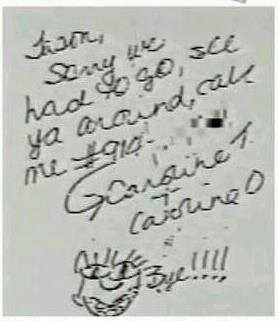 Note found with the body of a man, later identified as Jason Callahan, who was killed in 1995 in a car crash.